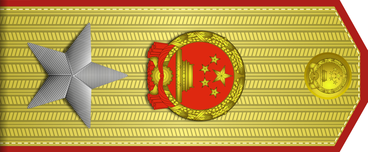 Marshal of the PRC's rank insignia. The rank is now abolished.